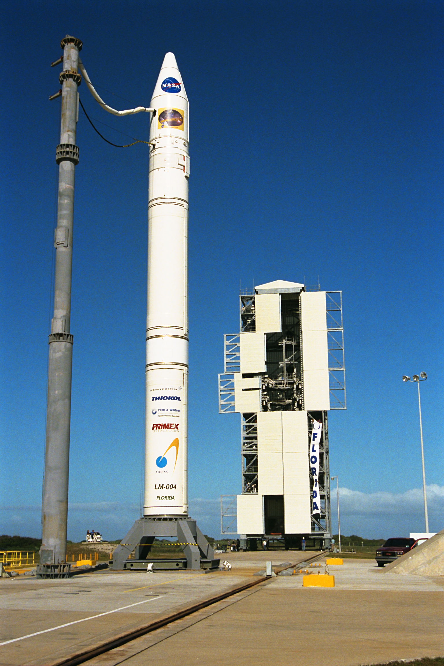 Athena-2 (LMLV-2 or LLV-2) rocket with Lunar Prospector